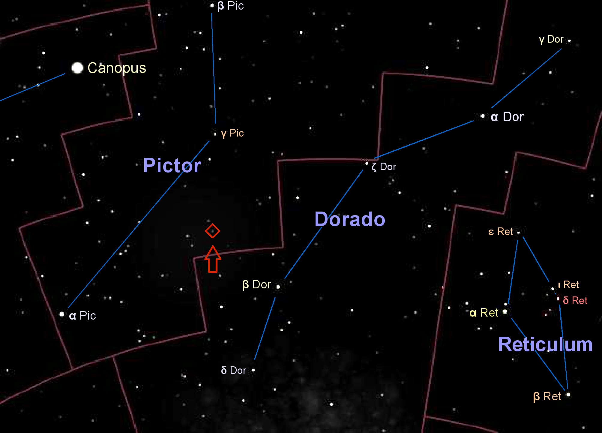 This illustration shows the location of the star HD 40307.